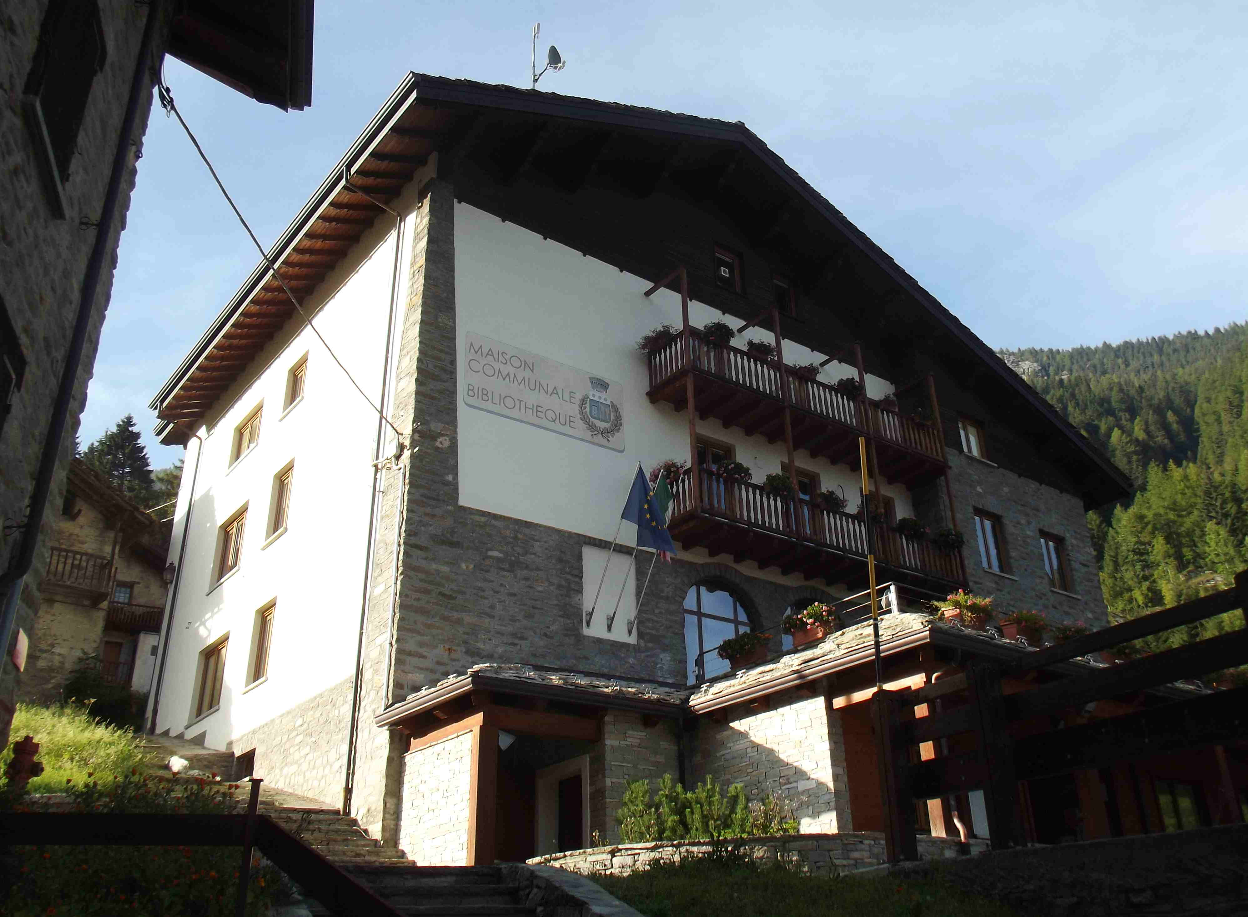 Champorcher (AO, Italy): town hall